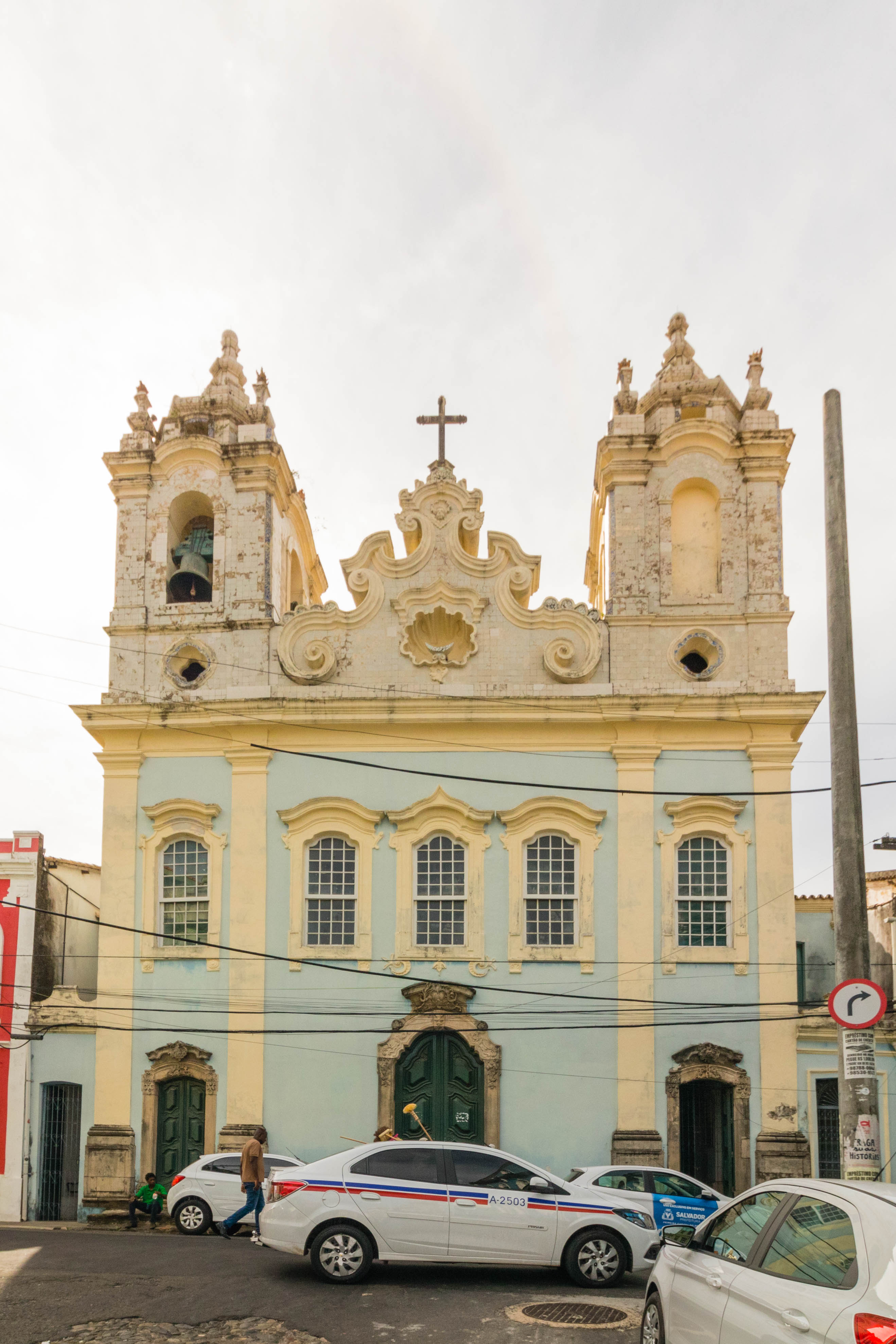 Igreja de Nossa Senhora da Conceição do Boqueirão, Salvador, Bahia.